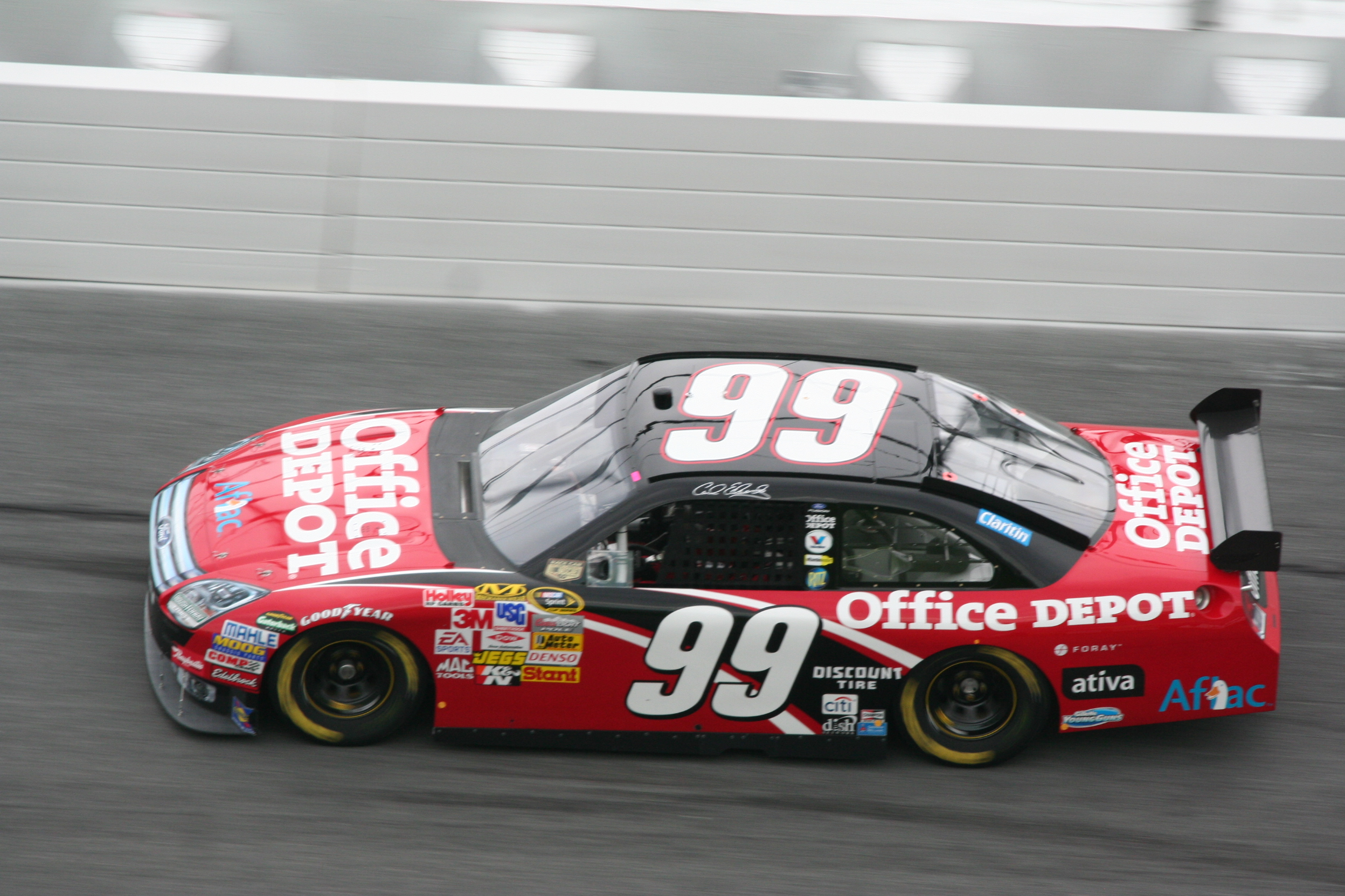 Shot by The Daredevil at Daytona during Speedweeks 2008Carl Edwards Office Depot Ford Fusion